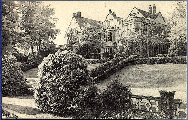 Description: Virginia House, Richmond, Virginia, built in 1925 of the material from The Priory, originally at Warwick, England, Garden Side. Manufacturer: Meriden Gravure Company, Meriden, Conn. Date Postmarked: Not postmarked. Rights: This item is in the public domain. Acknowledgement of the Virginia Commonwealth University Libraries as a source is requested. Reference URL: Collection